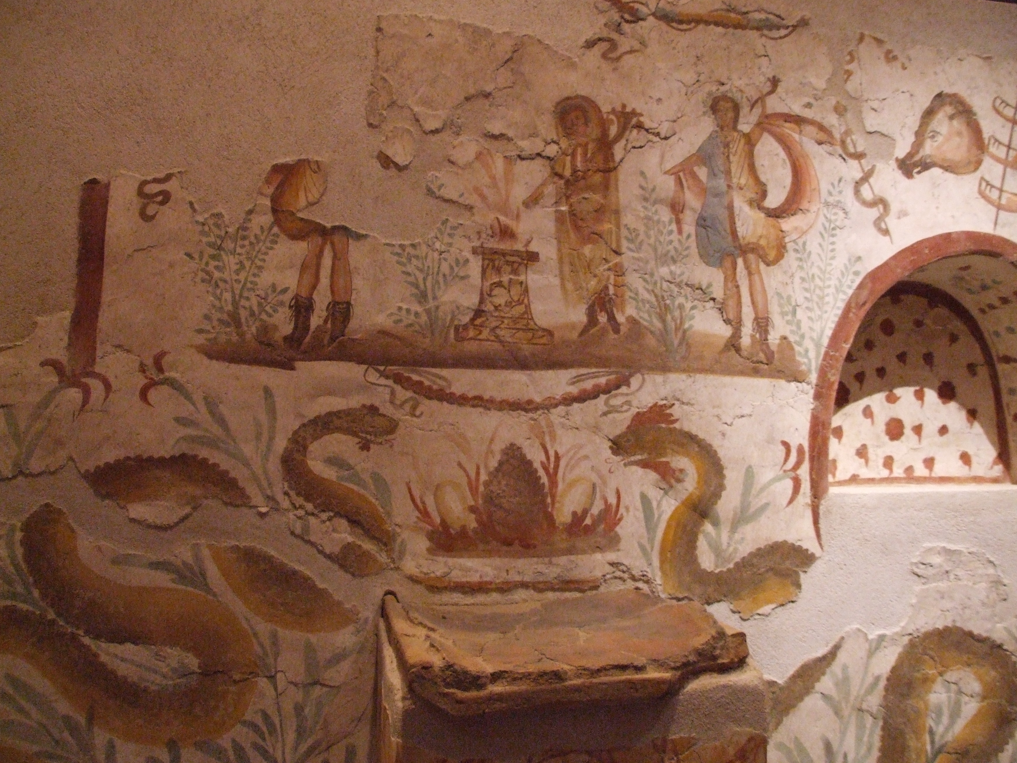 Detail of an roman Lararium with wallpainting, Pompeii, Pompeji-Exhibition at Europäischer Kulturpark Bliesbruck-Reinheim, 2007